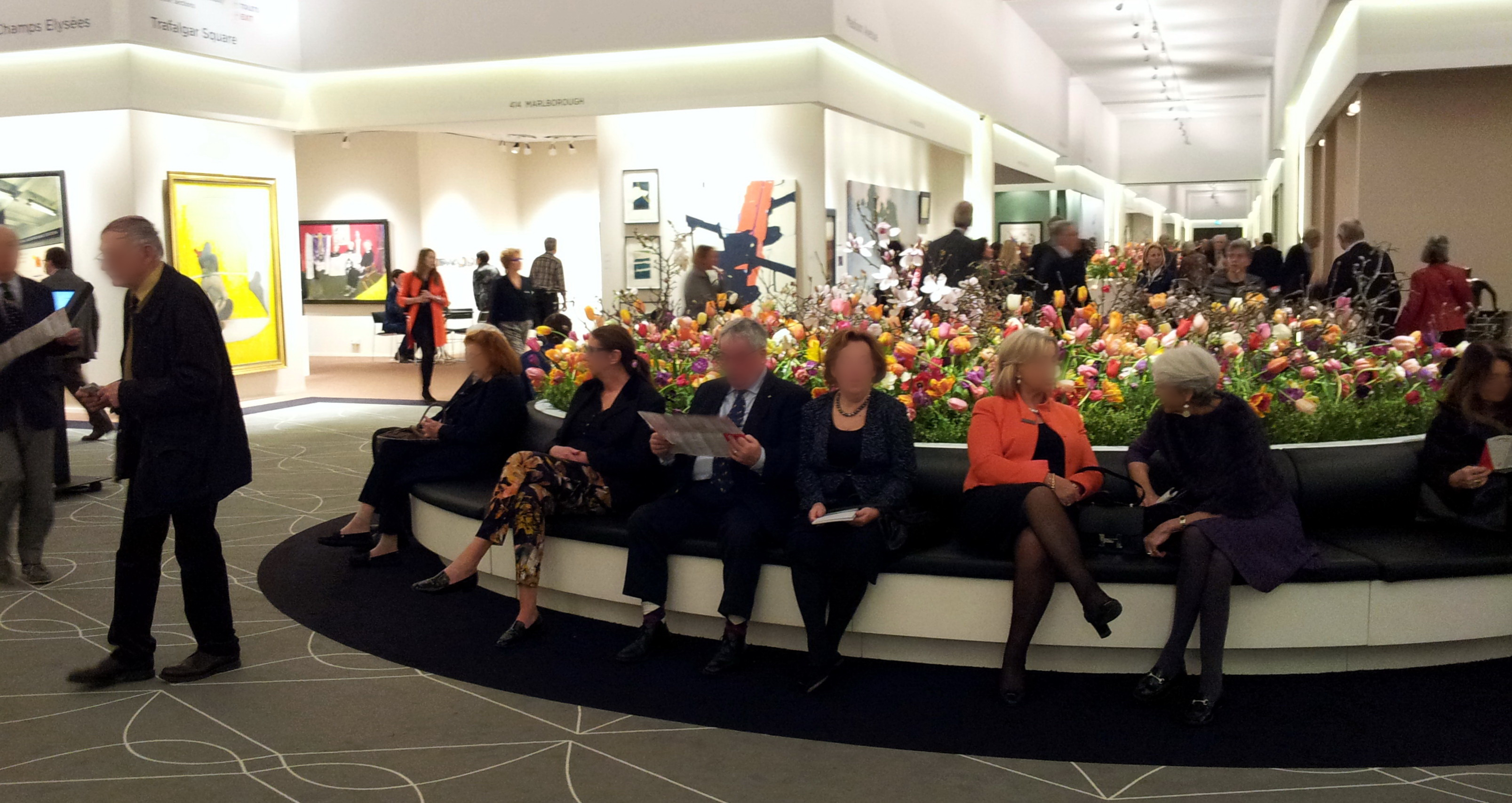 Maastricht, the Netherlands. Visitors taking a break of TEFAF 2014, The European Fine Art Fair.